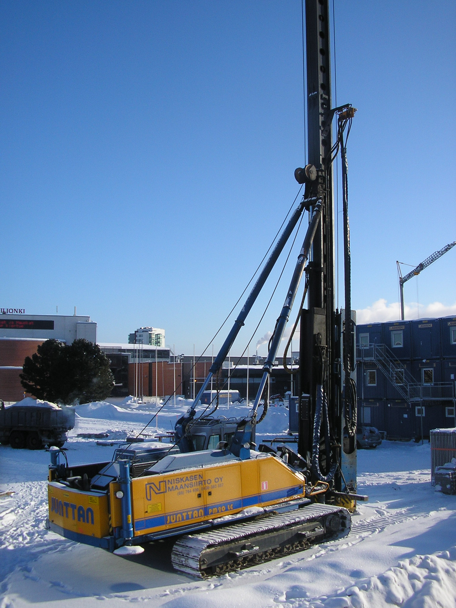 Junttan piling machine in Jyväskylä, Finland